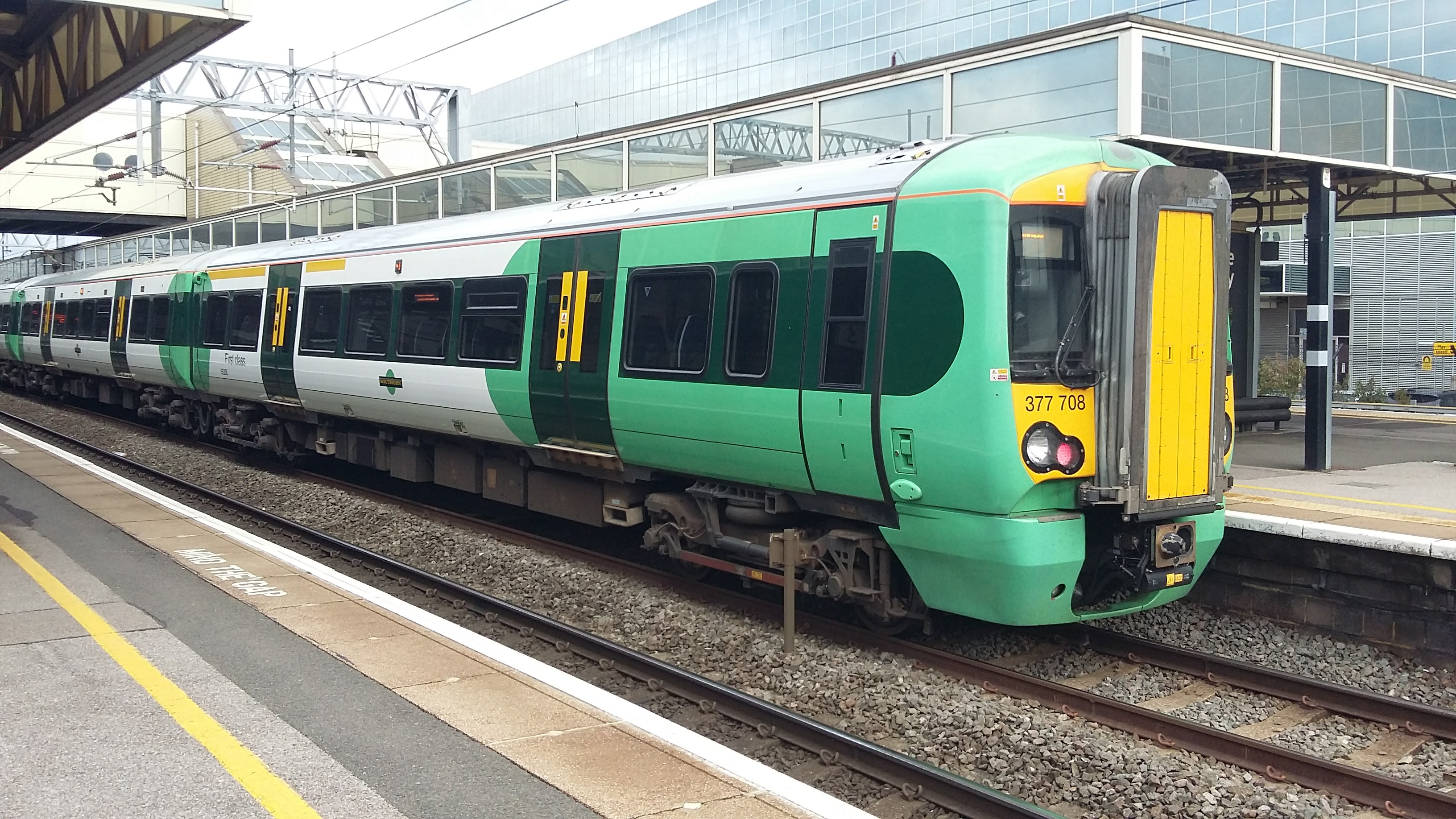 377708 Electrostar Class 377 Southern Region